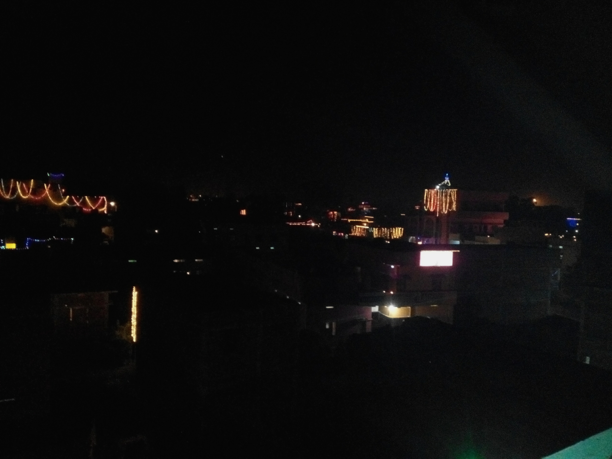 view of Deepawali of Harnaut, Harnaut, Bihar, India